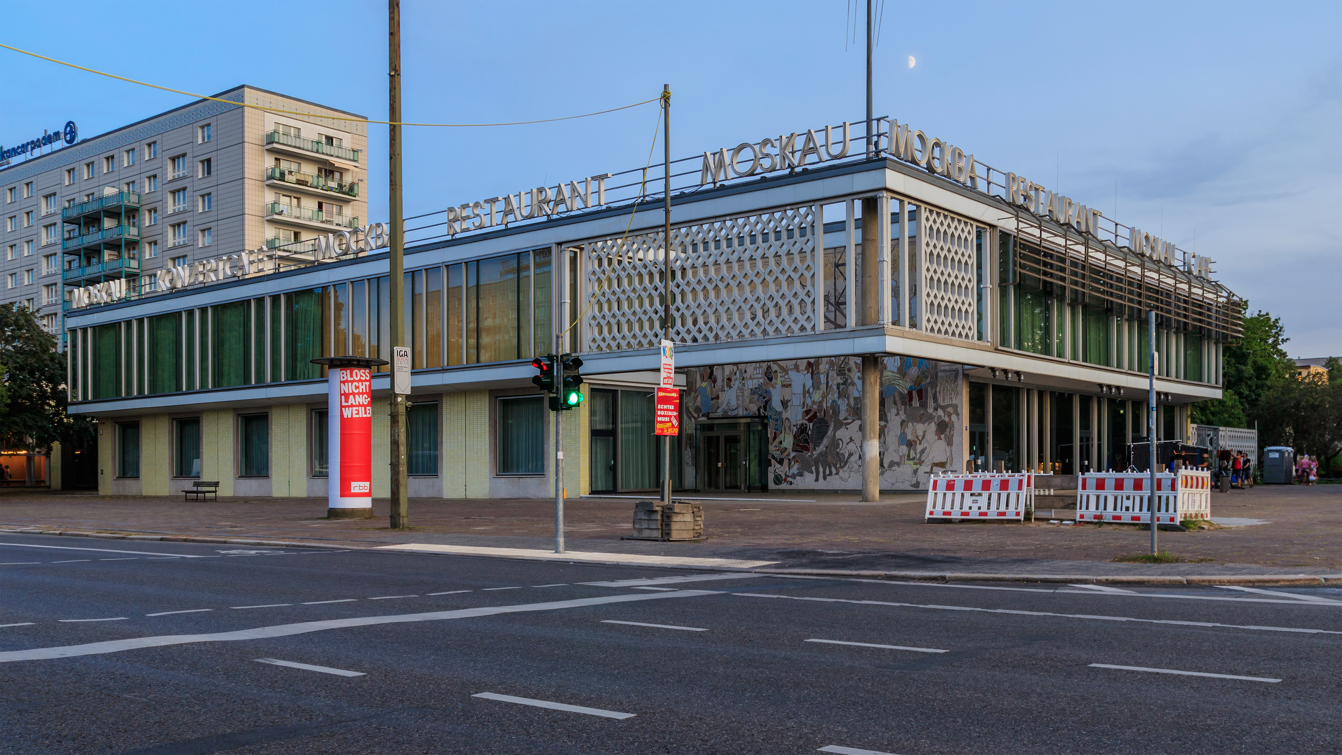 Former Café Moskau in Berlin (Germany)